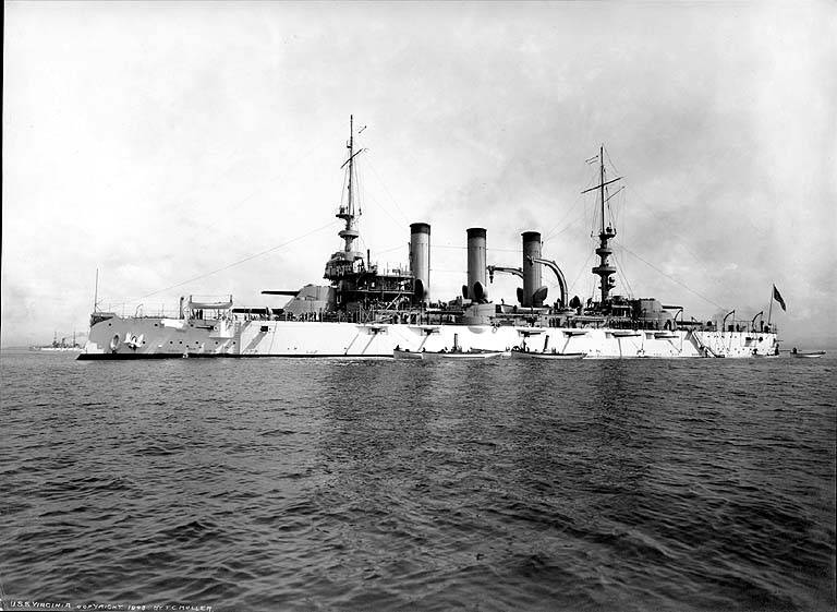 Caption on image: U.S.S. VIRGINIA. Copyright 1908 by T.C. Muller. PH Coll 1254.14 Subjects (LCSH): Virginia (Battleship); Battleships